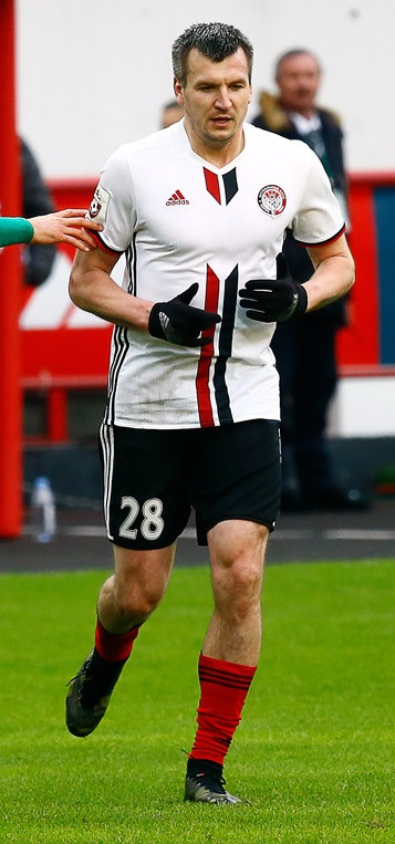 Stanislav Prokofyev with FC Amkar Perm in a game against FC Lokomotiv Moscow.